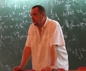 photo Yuri Kondratiev